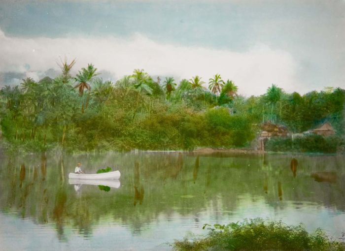 Boat on a lake near Cigombong